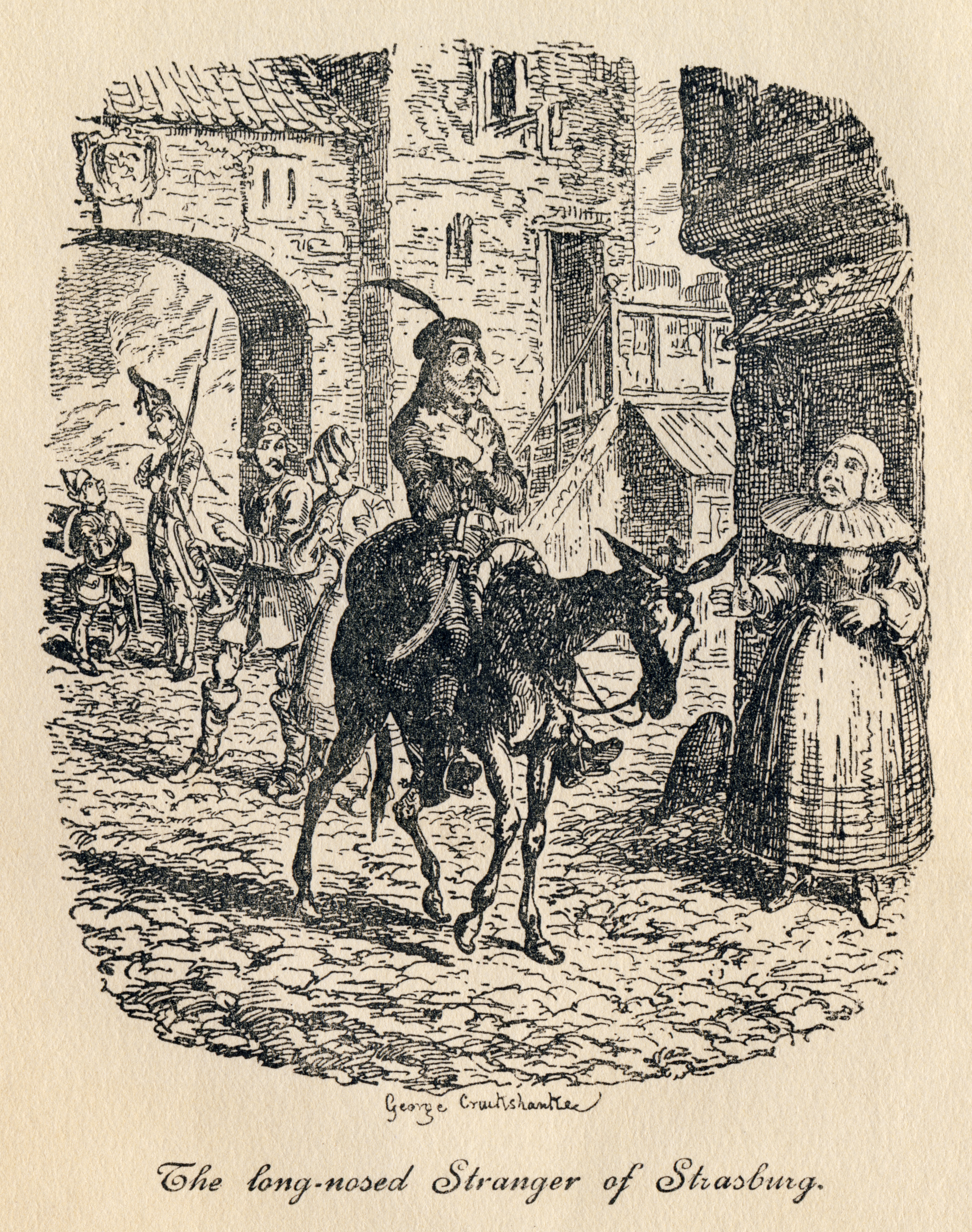 From George Cruikshank's illustrations to Laurence Sterne's Tristram Shandy. Plate IV: The long-nosed Stranger of Strasburg Illustrates part of a long diversion quoting Tristram's father's favourite reading, a collection of stories in Latin about noses. In this one, interest in the long-nosed stranger's nose draws the people of Strasburg out of their homes, which are then conquered by the French. From "Slawkenbergius's Tale", the introduction to Book IV, which is also provided in Latin for a few pages.